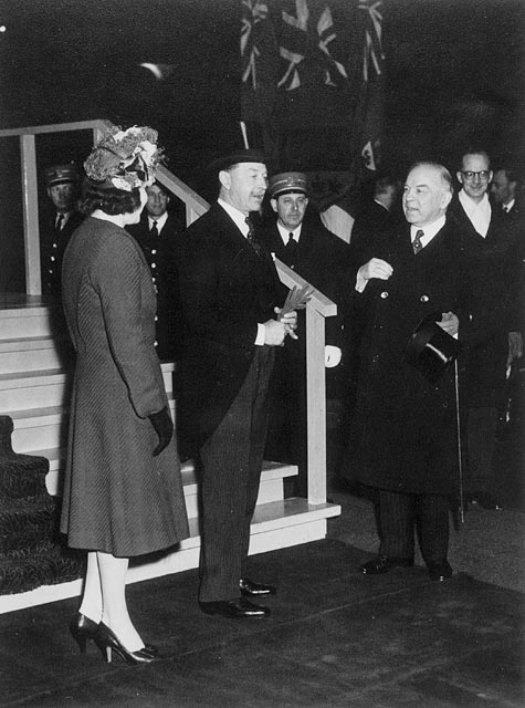 Governor General of Canada Harold Alexander, 1st Earl Alexander of Tunis and his wife are greeted by Prime Minister of Canada William Lyon Mackenzie King on their arrival in Canada.